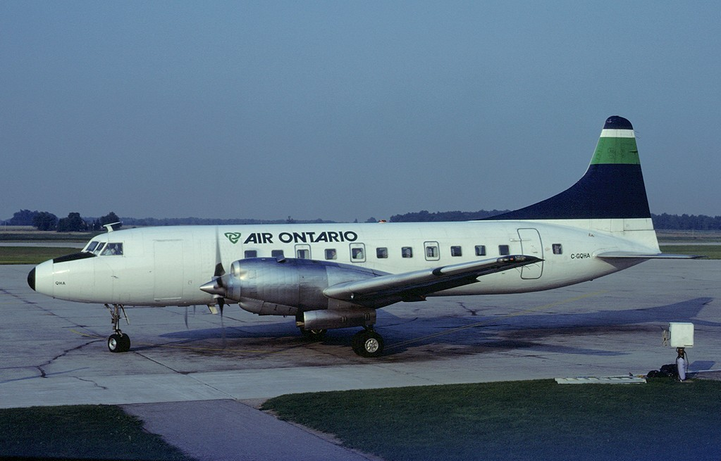 Air Ontario Convair 580 C-GDTC at London International Airport, London, Ontario, Canada.